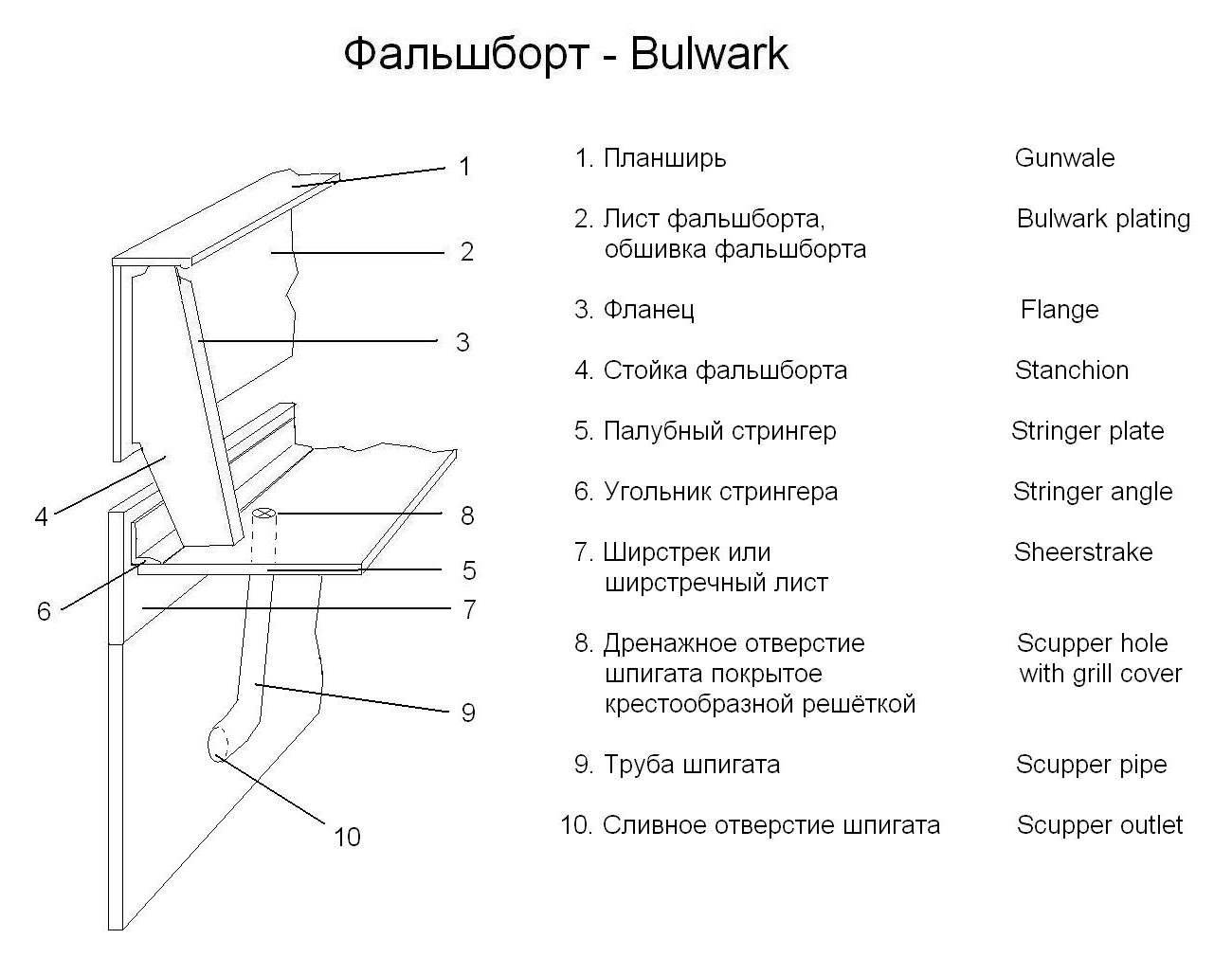 Bulwark